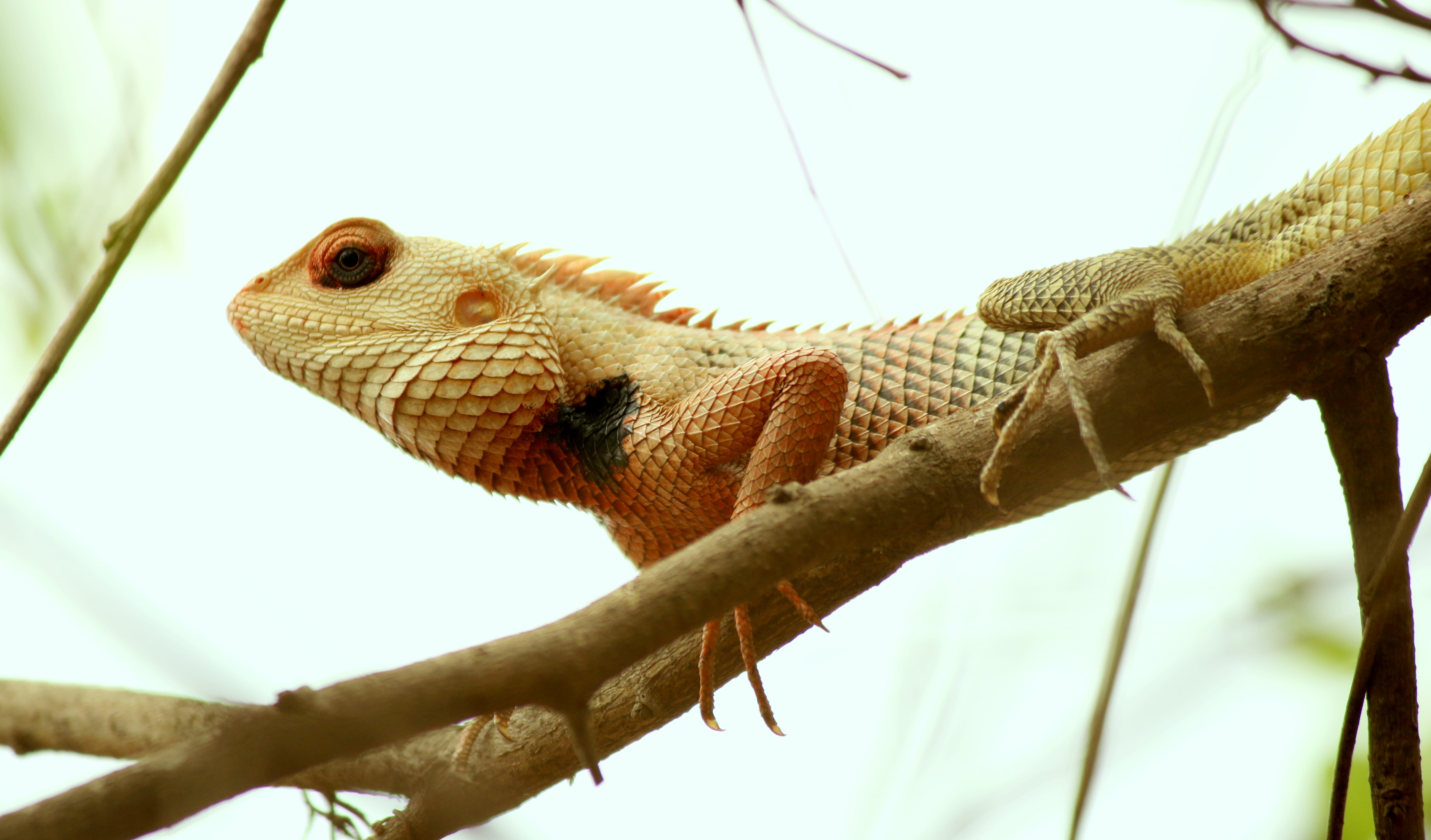 Bhandup Pumping station,Mumbai,Maharashtra, India